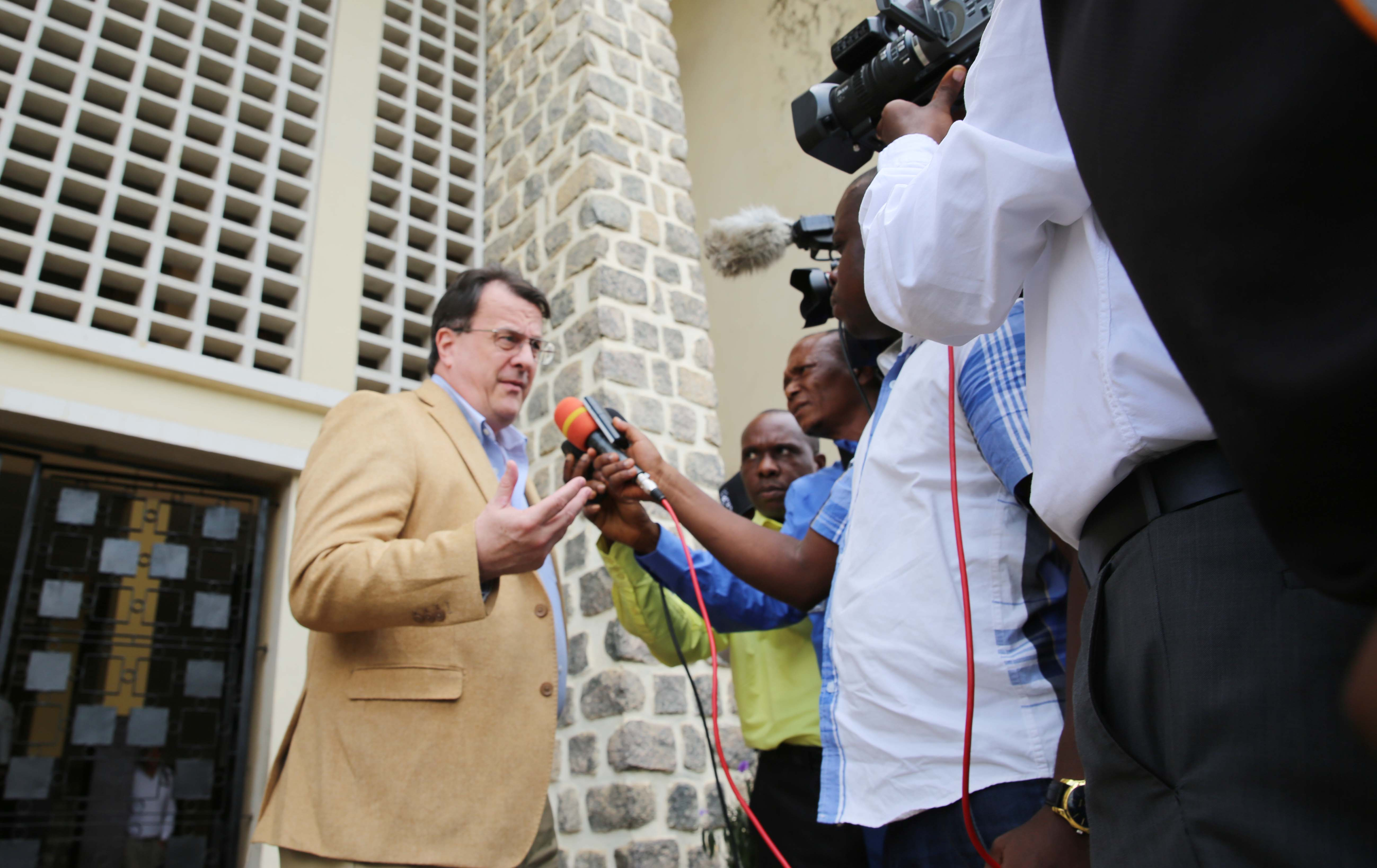 Kananga, Western Kasai Province, DR Congo: Following violent clashes between the militiamen of Chief Kamwina-Nsapu and the DR Congo Armed Forces, the Deputy Special Representative of the UN Secretary General in the DRC, David Gressly and the MONUSCO Police Commissioner, General Awale Abdou Nassir met with the Governor of the Province, the Provincial Security Committee, political parties, religious leaders, the staff of MONUSCO and UN agencies. In this photo, Mr. Gressly is seen interacting with the media after his visit.